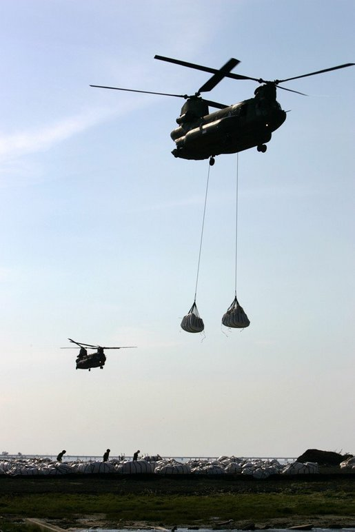 Helicopters lift sandbags that will be dropped into the area of the levee break to facilitate repairs to 17th street levee in New Orleans, Louisiana. Note: This work area may be near the 17th Street Canal, but the breach in that canal was closed before September 8. These sandbags are probably destined for one of the breaches which are still open. Location appears to be at or near Lake Pontchartrain shorefront, with Pontchartrain causeway visible in the distance.